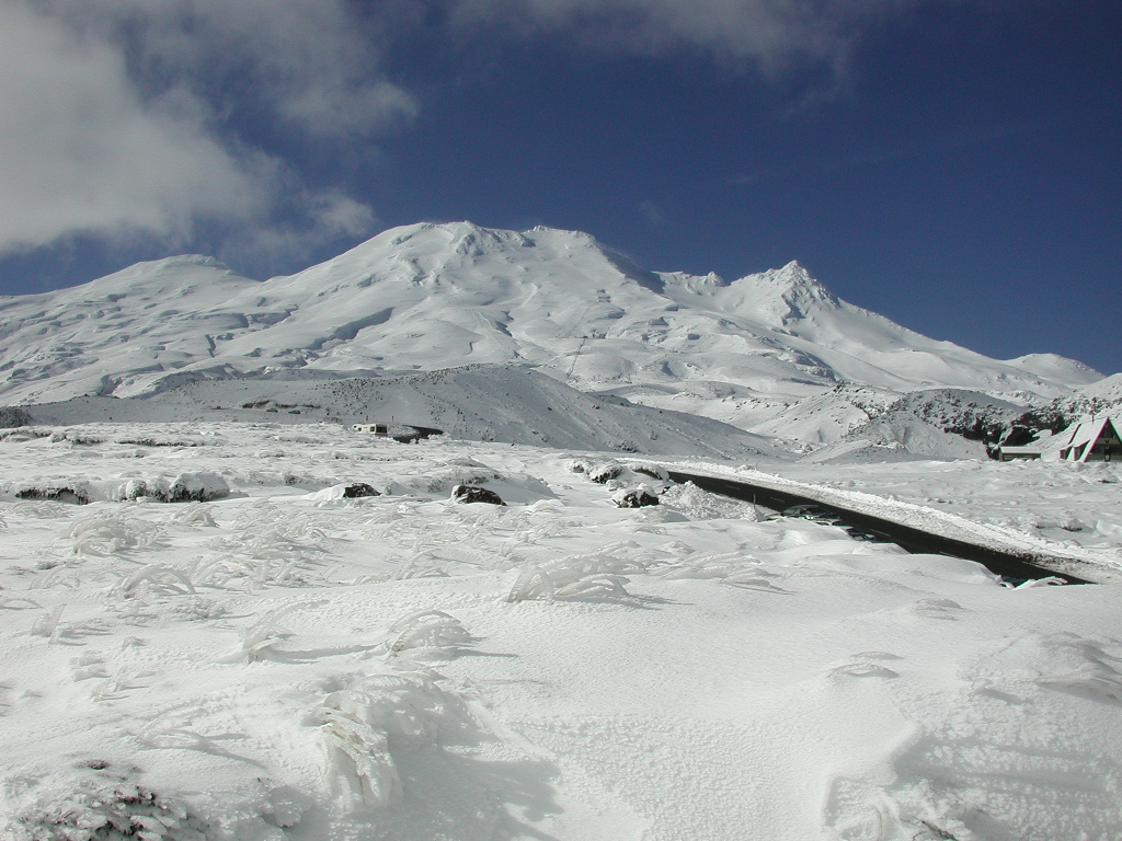 Mount Ruapehu in winter, from south side (Turoa).